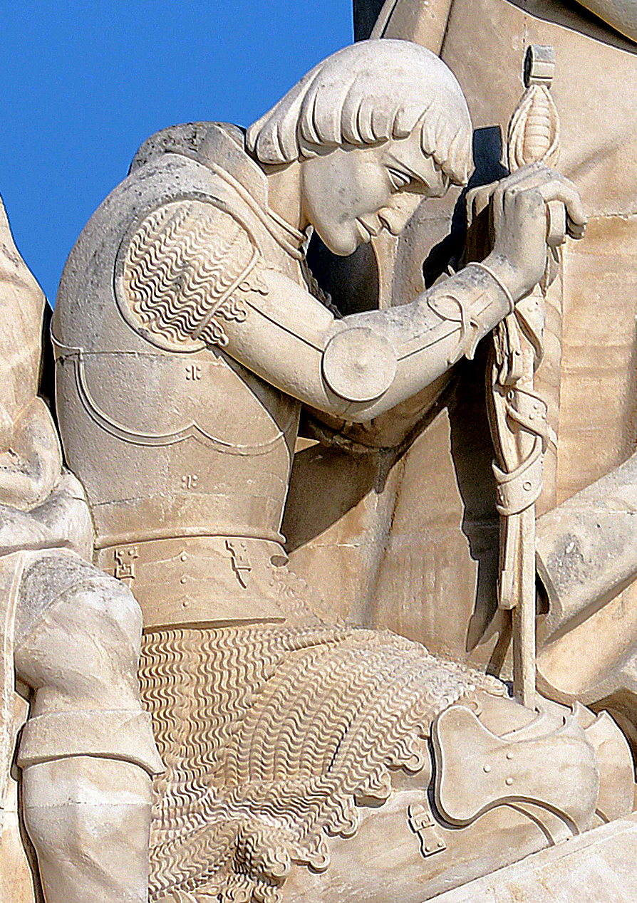 Effigy of Ferdinand the Holy Prince (1402-1443), Infante of Portugal, in the Padrão dos Descobrimentos (Monument to the Discoveries), in Lisbon, Portugal.